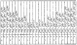 Illustration of a book from Ibn Yahyā al-Maghribī al-Samaw'al called al-Bahir fi'l-jabr, meaning "The brilliant in algebra", from the XIIth century. This image is taken from the website Monde arabe